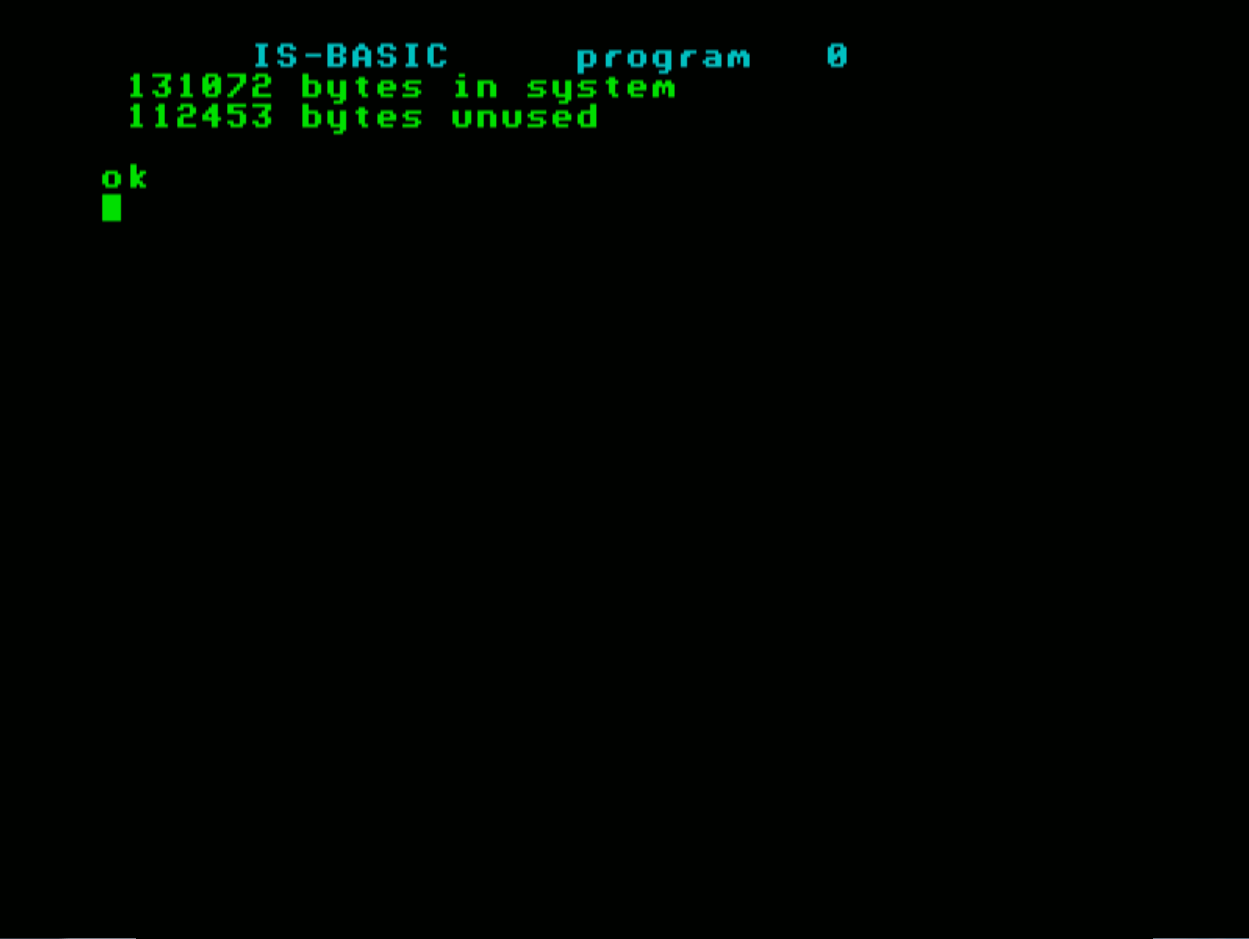 IS-BASIC on Enterprise 128 (via Emulator MESS), IS stands for Intelligent Software, Standard Resolution is 256x160 pixels with 16 colours.